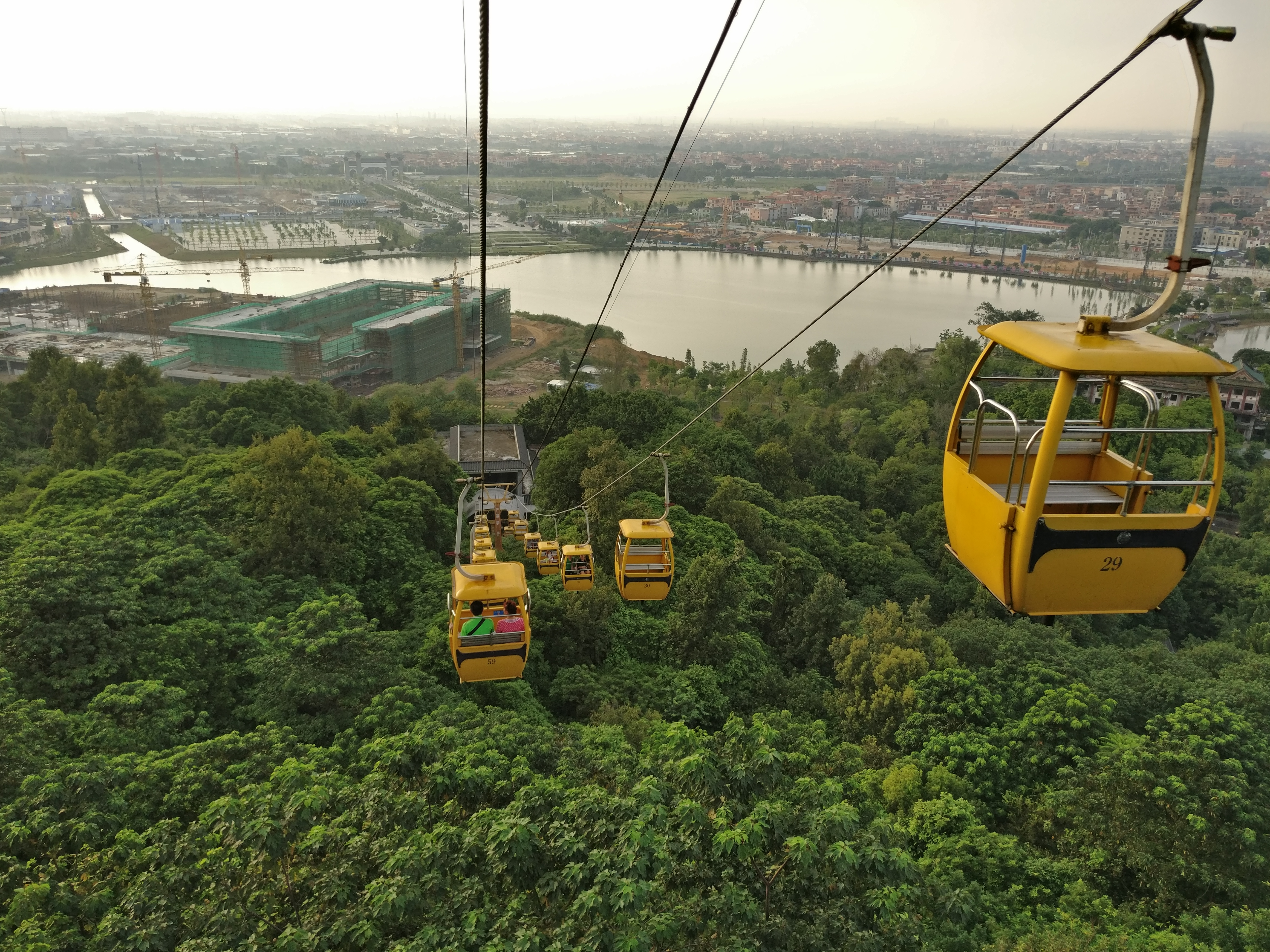 Gondola lifts at Sai Chiu Hills, Fatshan, Kwangtung 粵語: 廣東佛山市西樵山纜車